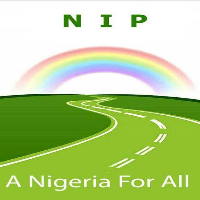 NIP logo